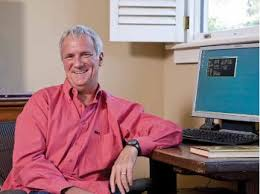 Arthur Whitney programmer and software language inventor